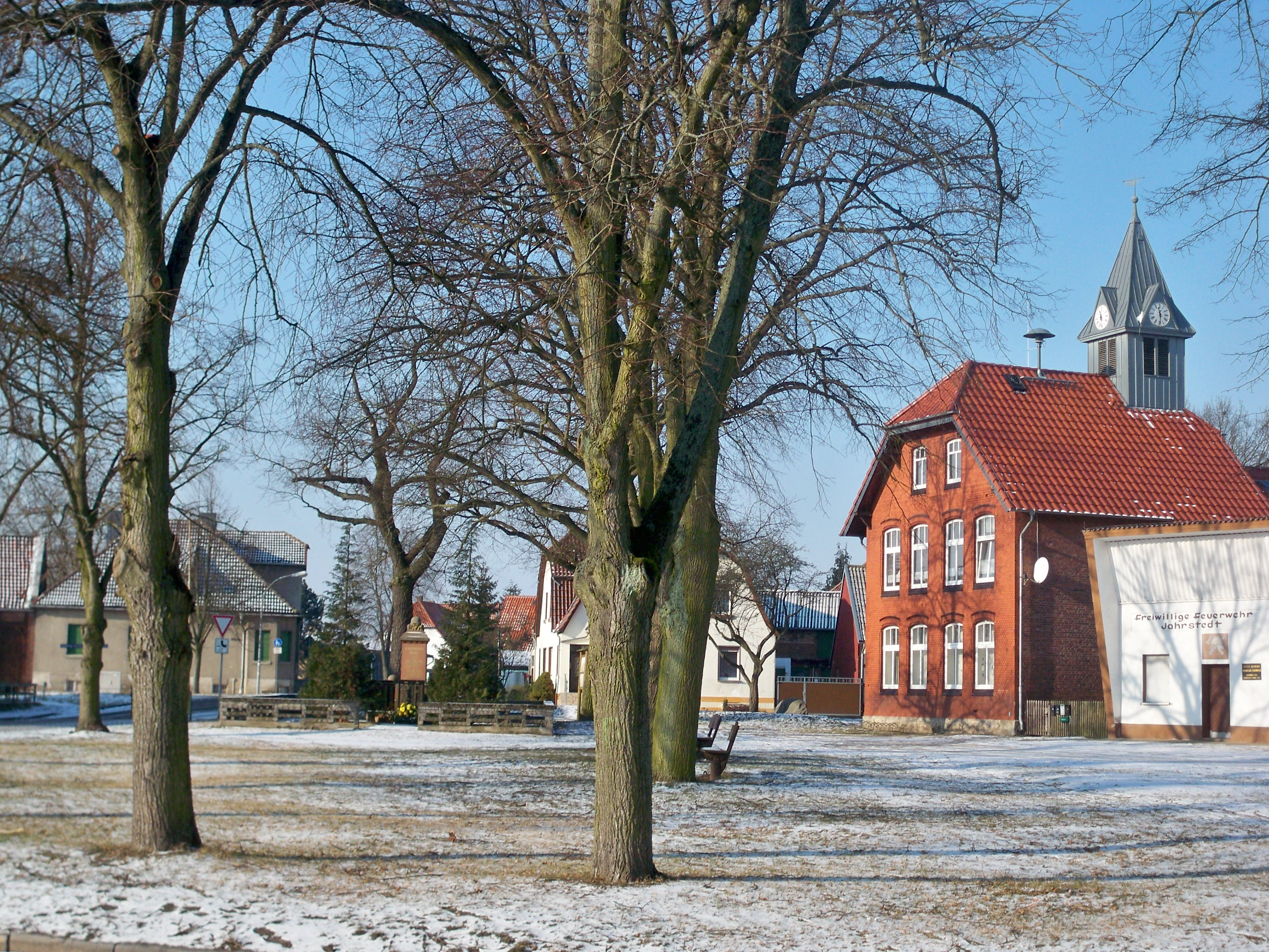 Jahrstedt (Klötze), Saxony-Anhalt, village centre